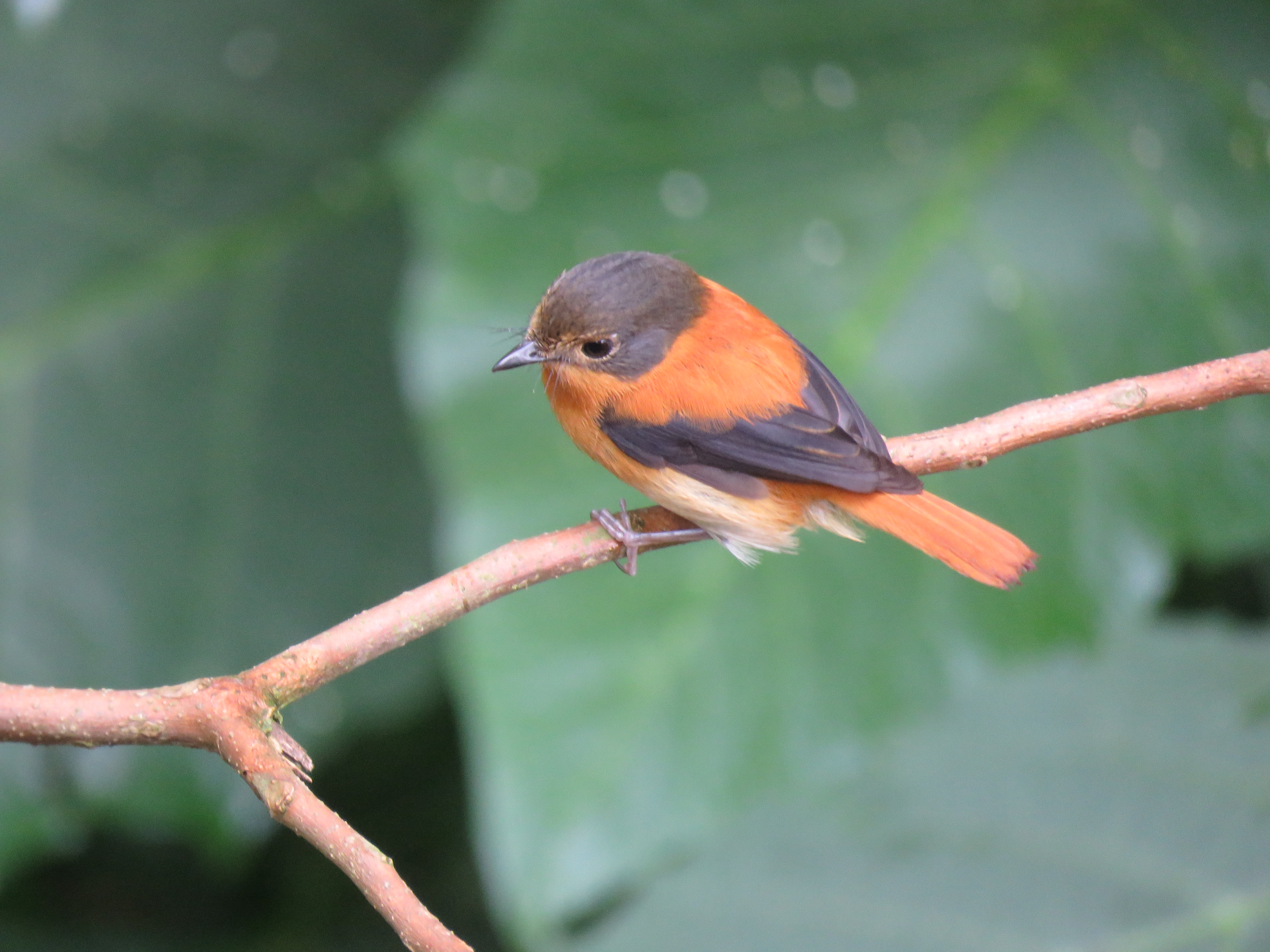 Black-and-orange flycatcher(Ficedula nigrorufa) from Coonoor India